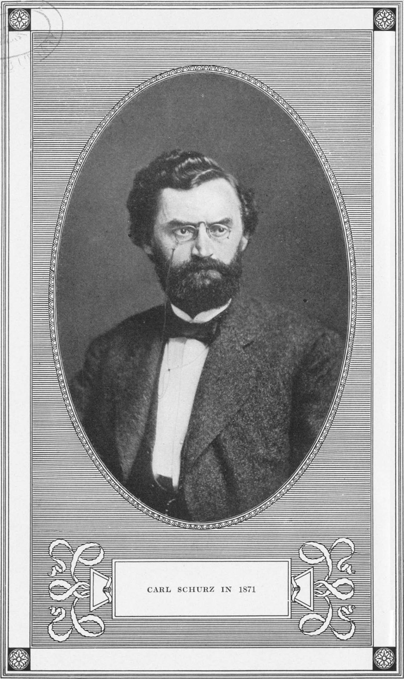 Black and white bust portrait of Carl Schurz in oval frame